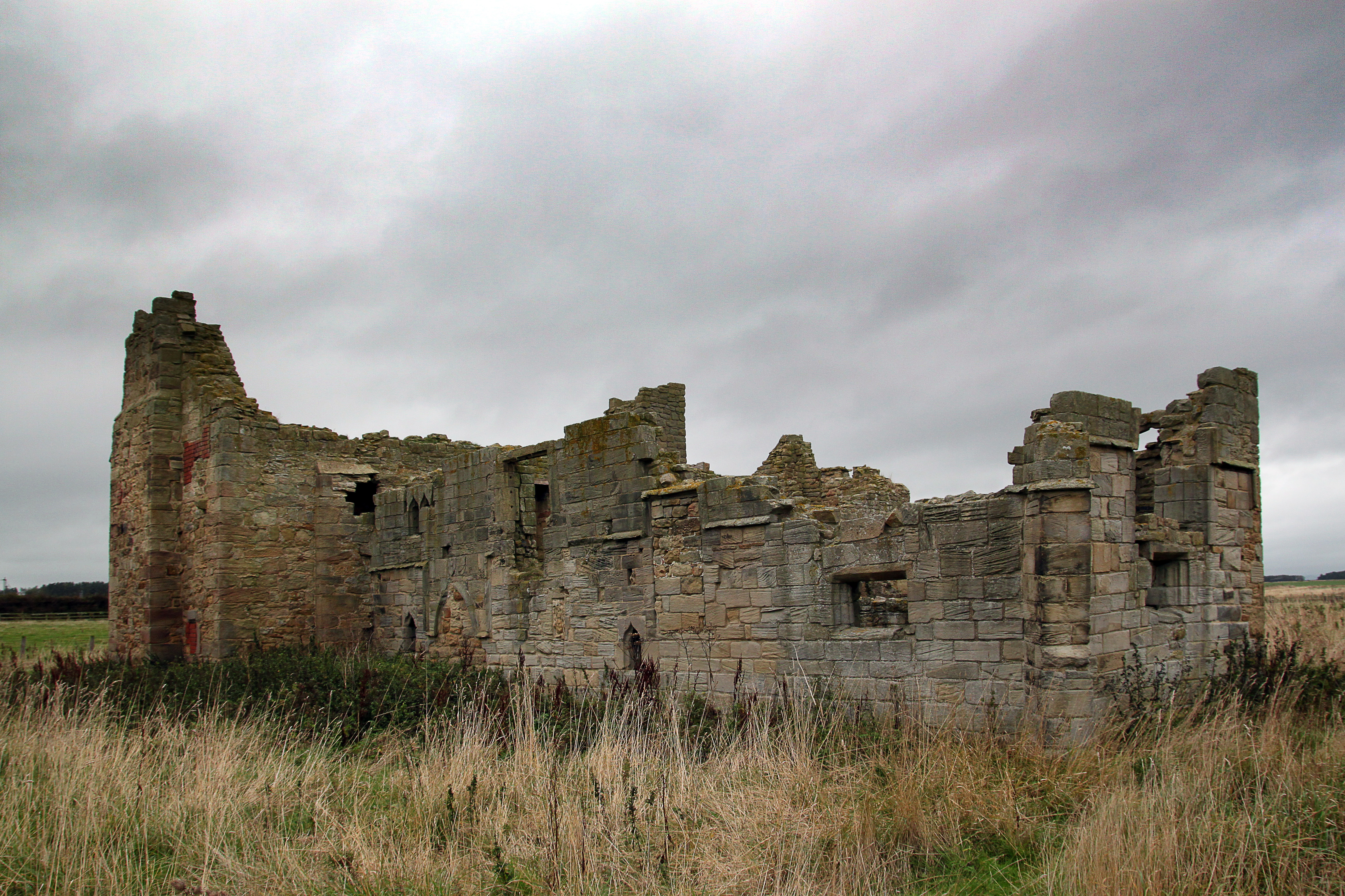 The ruins of a Knights Hospitaller preceptory in Northumberland, England